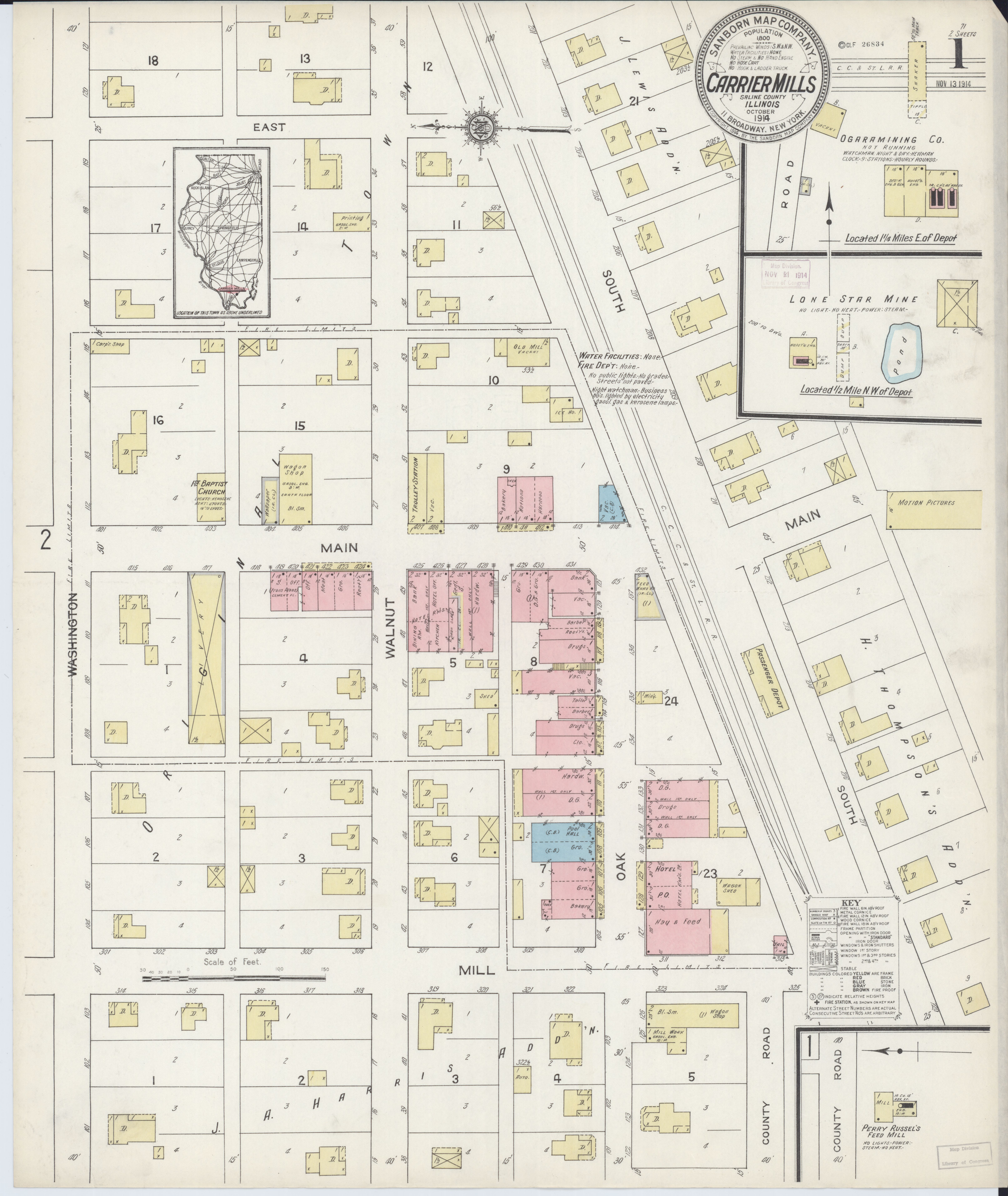 Oct 1914. 2 Sheet(s).